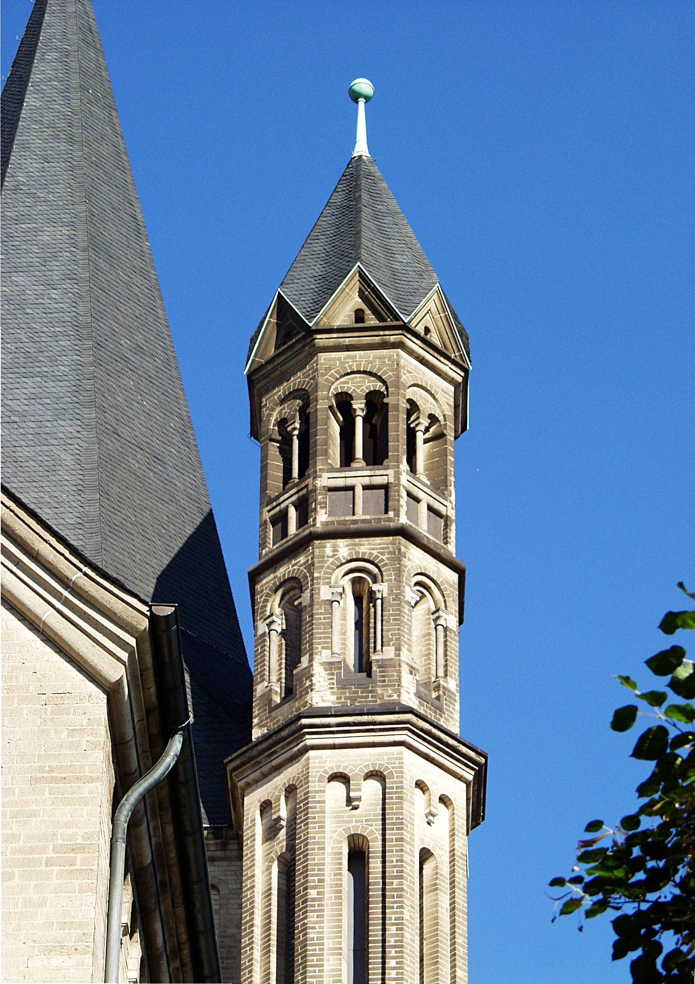 Southwest turret of Groß St. Martin, Cologne